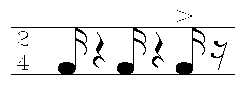 French Antilles compas music rhythm model